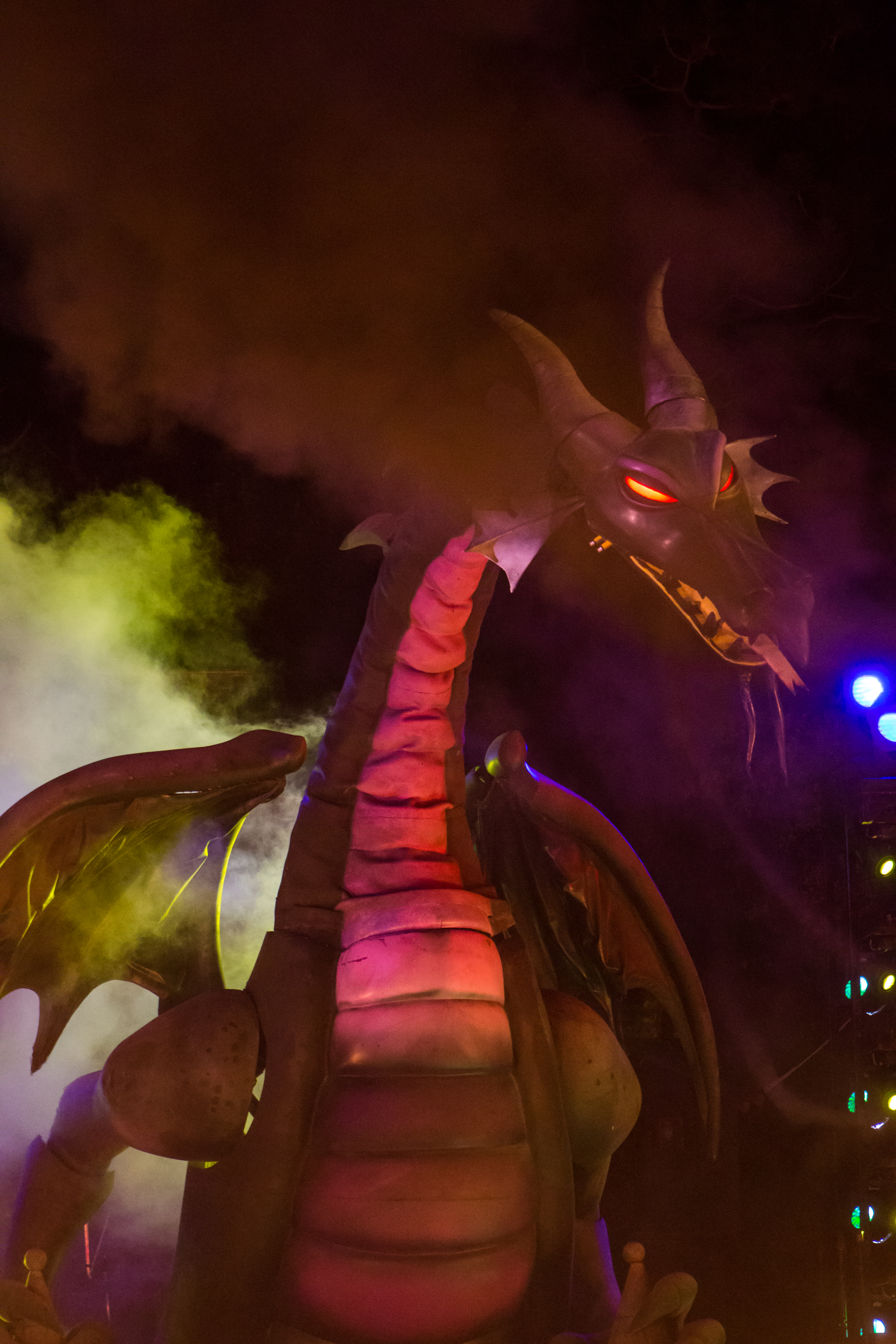 Part of Fantasmic as seen from the Rivers of America.